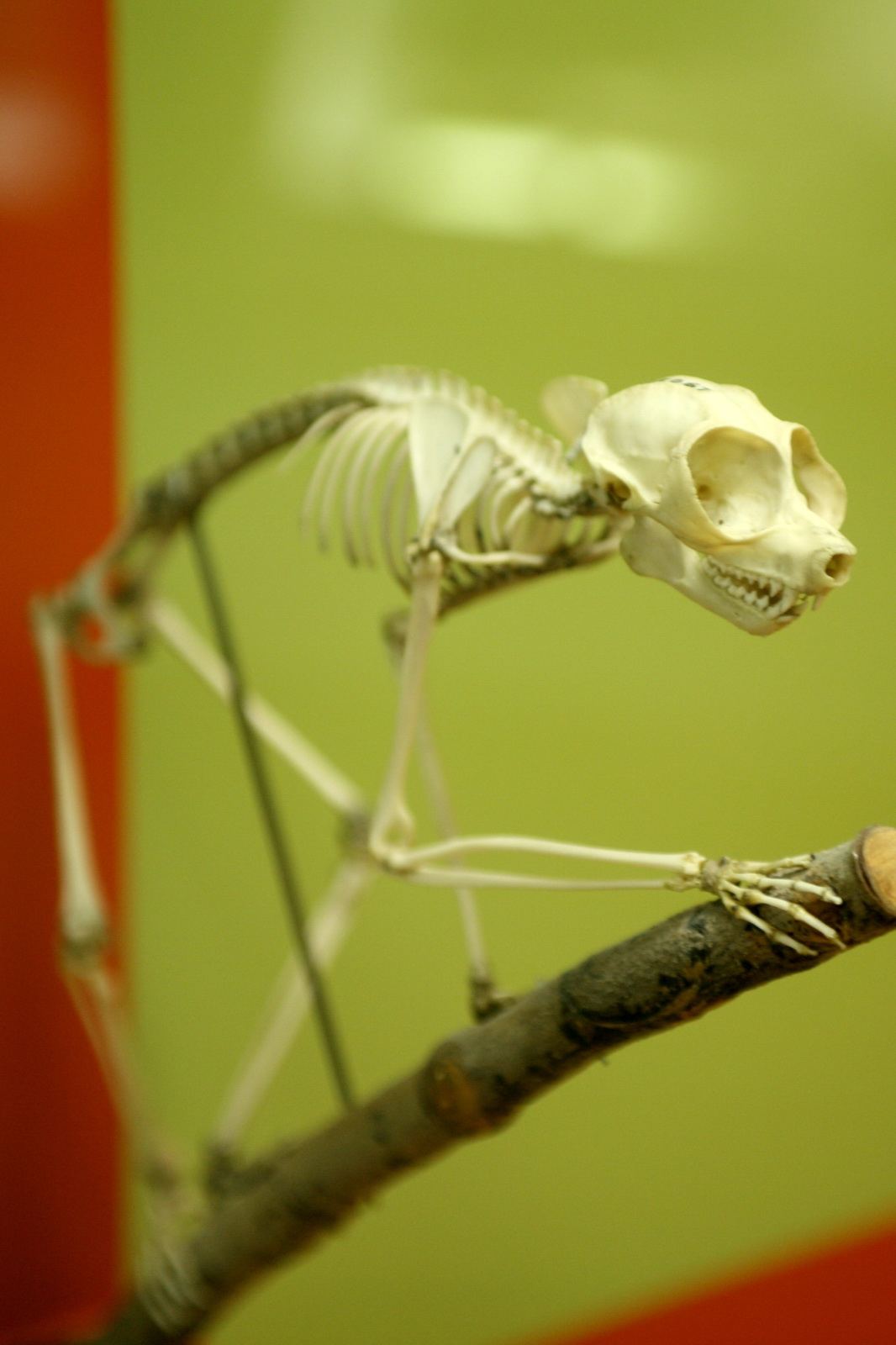 The slender loris